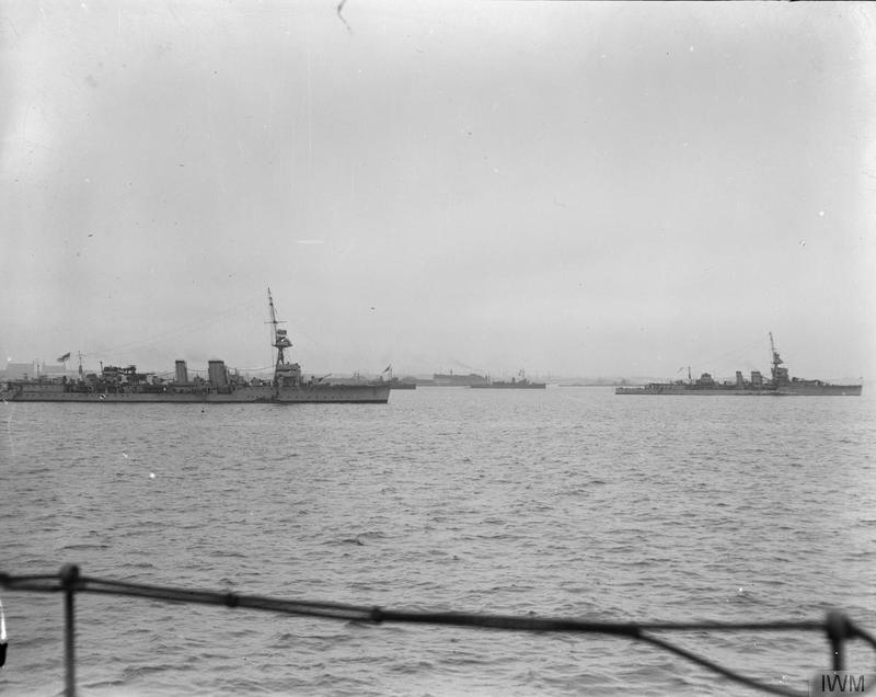 The British Naval Campaign in the Baltic, 1918-1919 Royal Navy fleet at Libau (Liepaja). Light cruiser HMS CASSANDRA on left. December 1918.